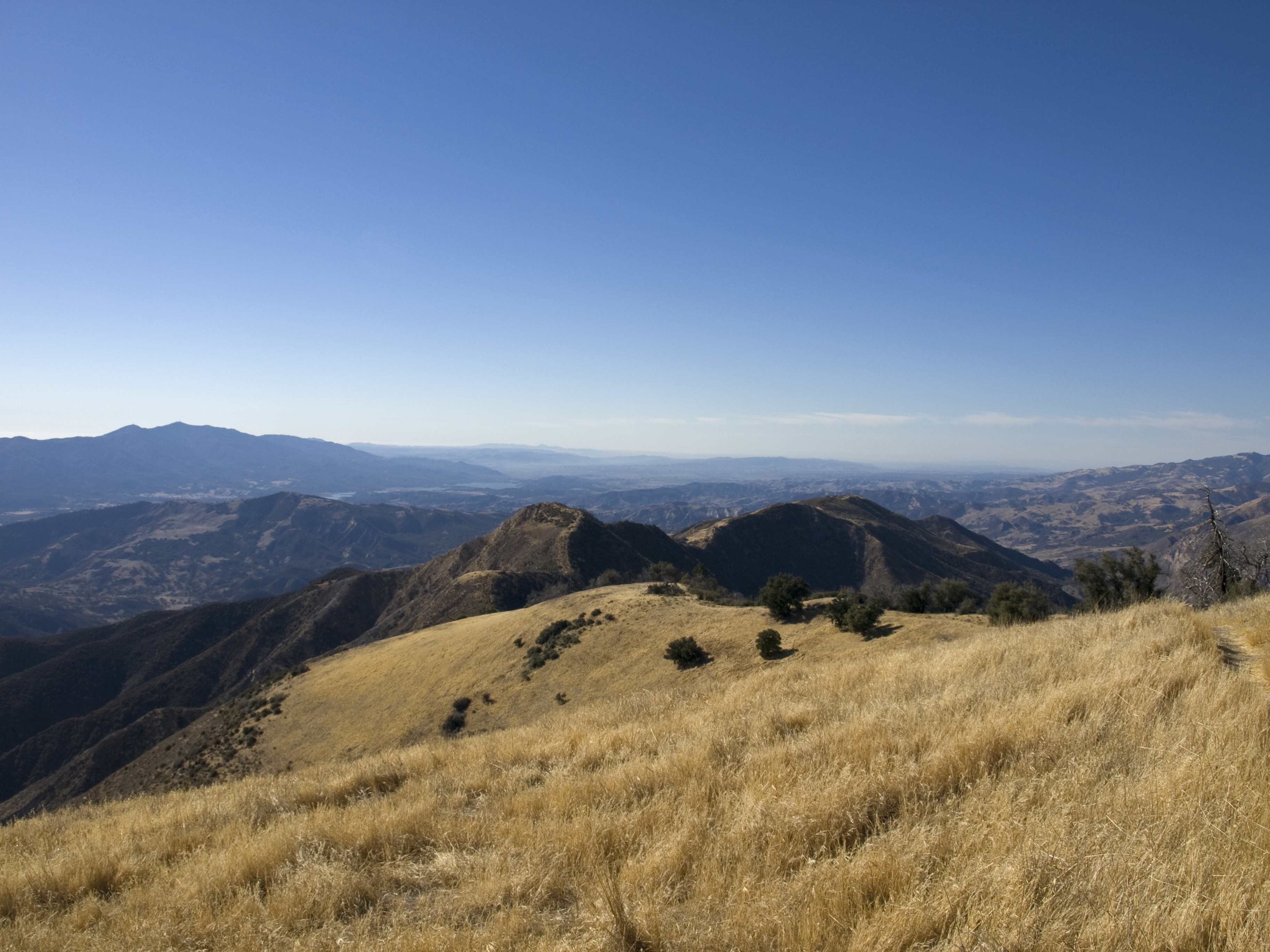 View of San Rafael Mountains and the valley of Santa Ynez River from the top of Little Pine Mountain